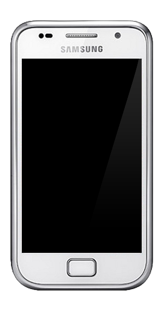 Samsung Galaxy S - i9000